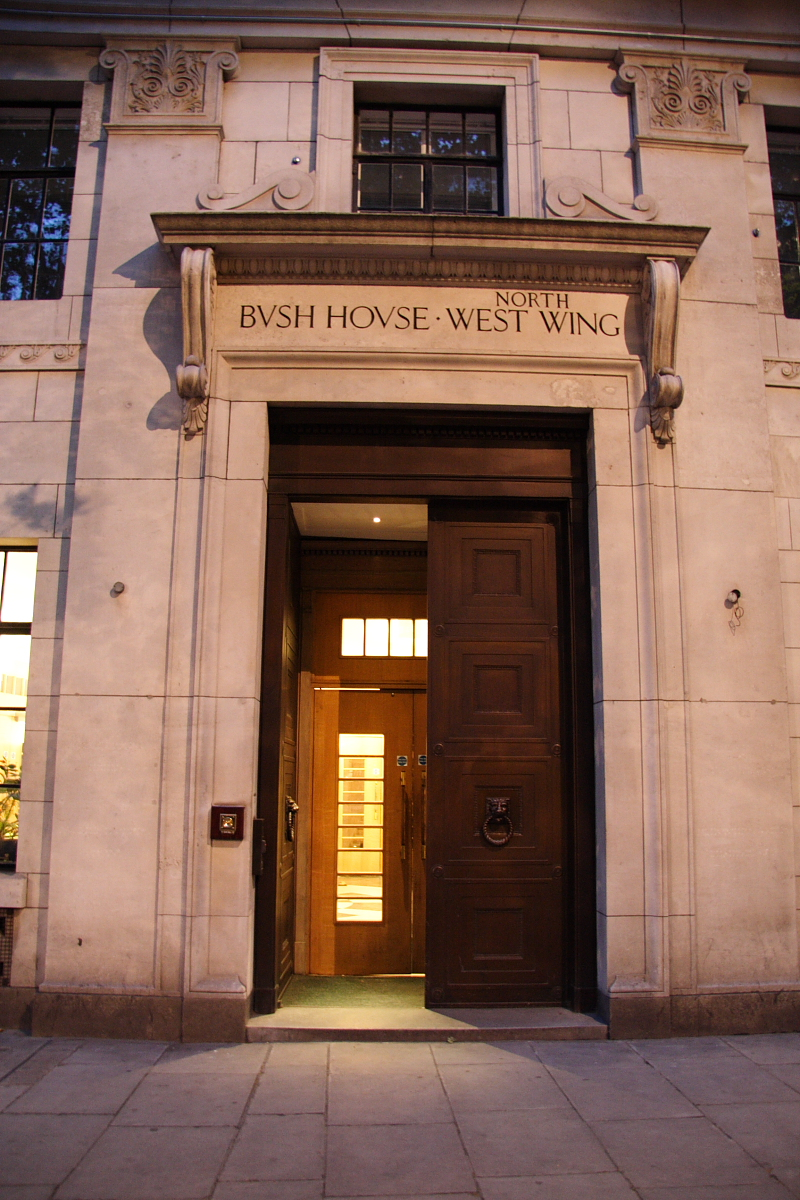 Bush House, North-West Wing, London